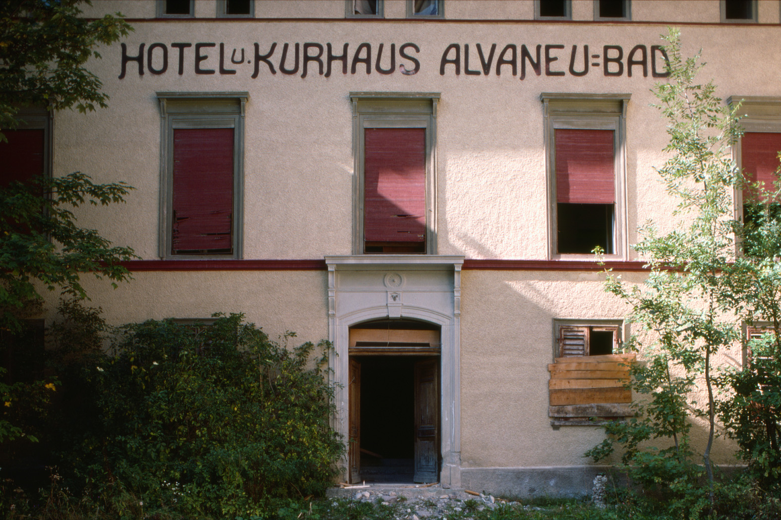 Front view of the old "Hotel und Kurhaus Alvaneu-Bad" already partially destroyed.